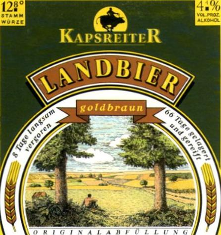 'Landbier' beer label, Kapsreiter brewery, Schärding